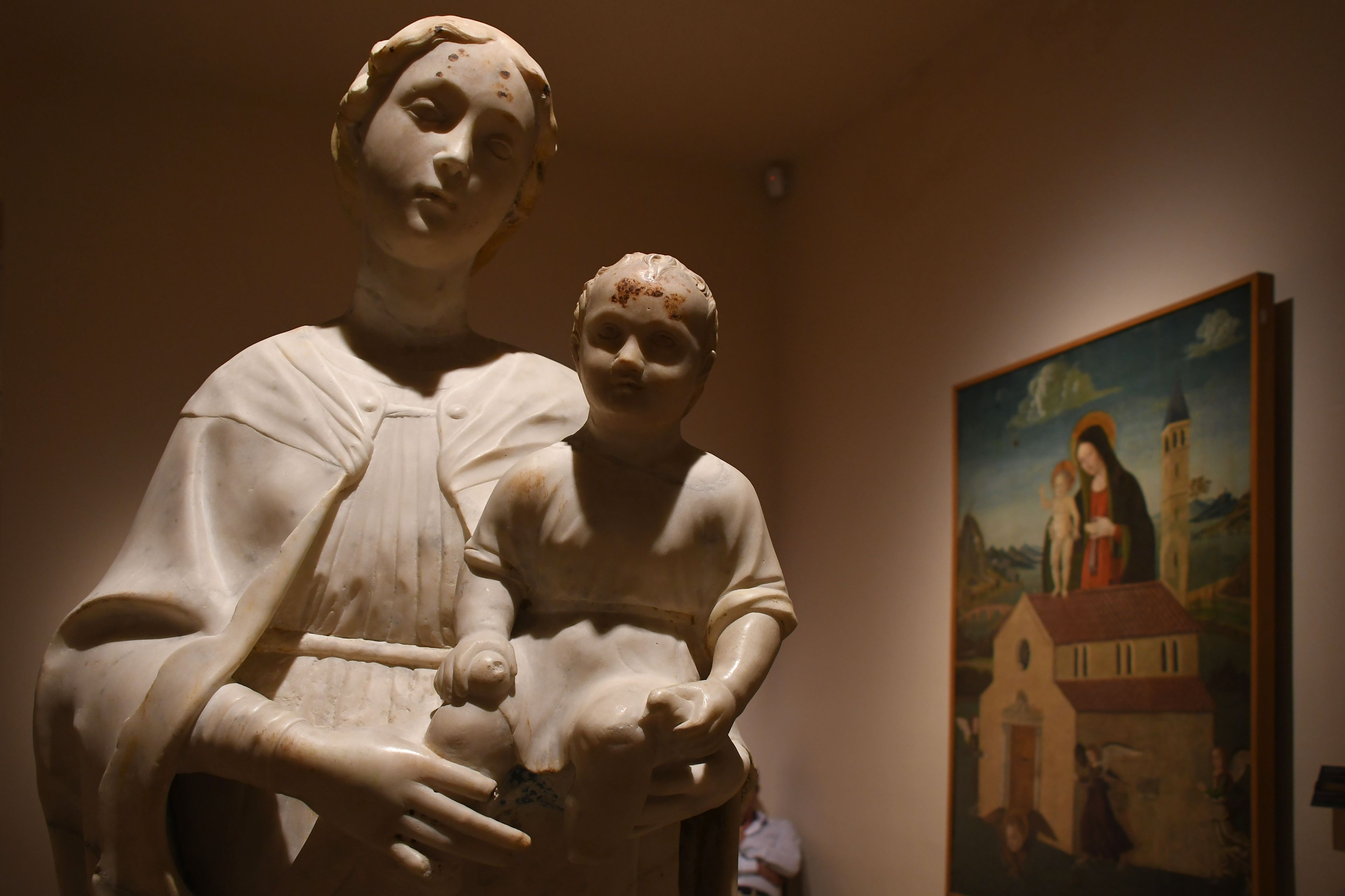 Siracusa, Galleria Regionale di Palazzo Bellomo, Madonna and Child, Siracusa former Church of S. Domenico Antonello Gaginin and Antonino Gagini attrib.16th century)